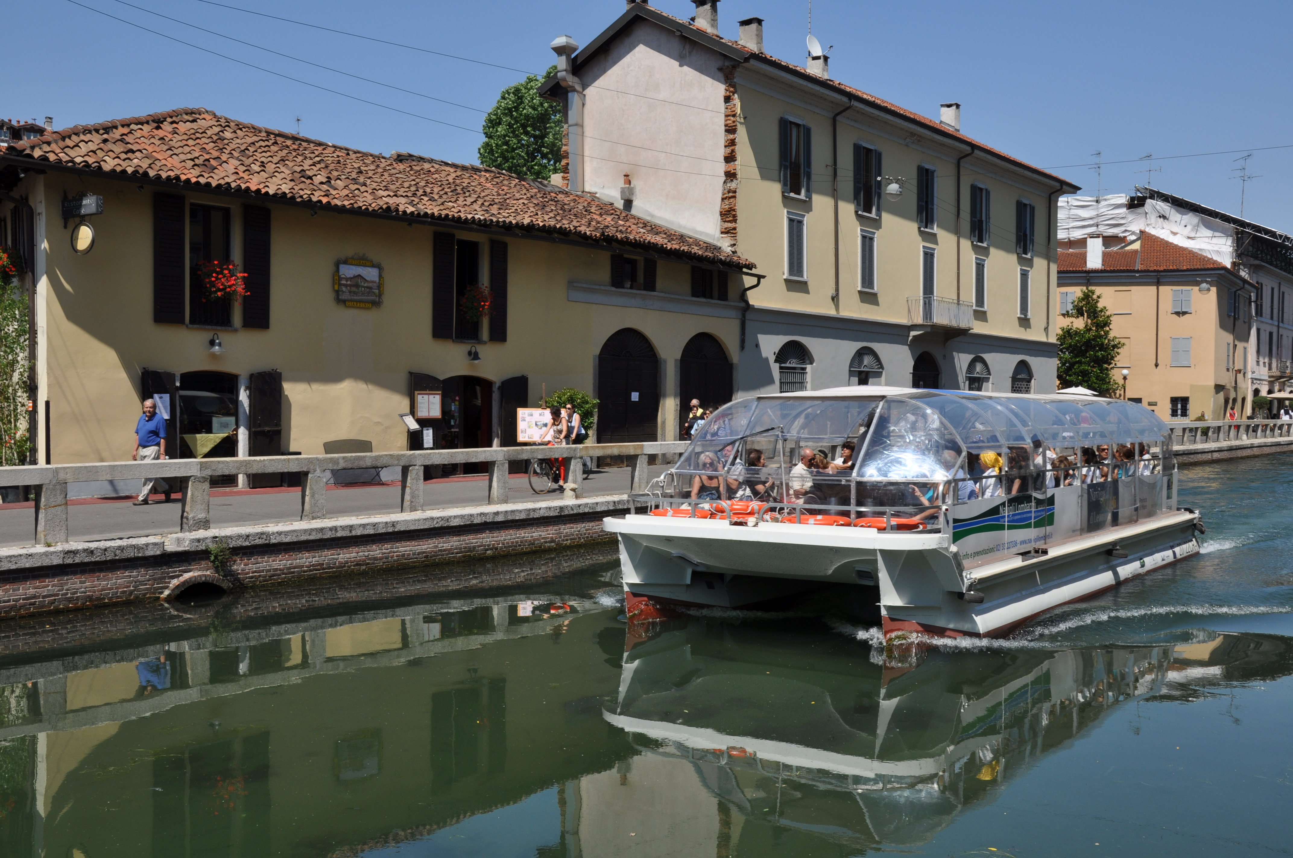 Milano, Naviglio Grande. thanks everyone for the visits and comments!